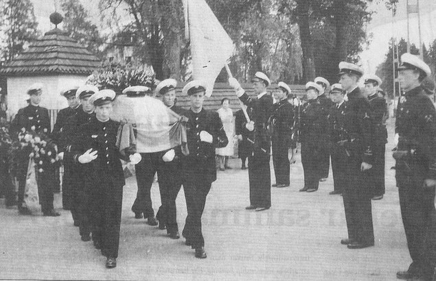 The funeral of Swedish Air Force cadet Nils Otto Gustaf Wilhelm Aschan (1925-1945)